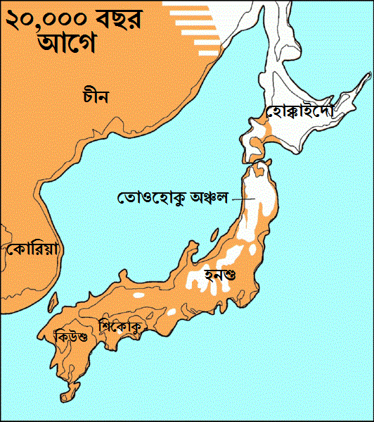 Japan at the Last Glacial Maximum in the Late Pleistocene about 20,000 years ago